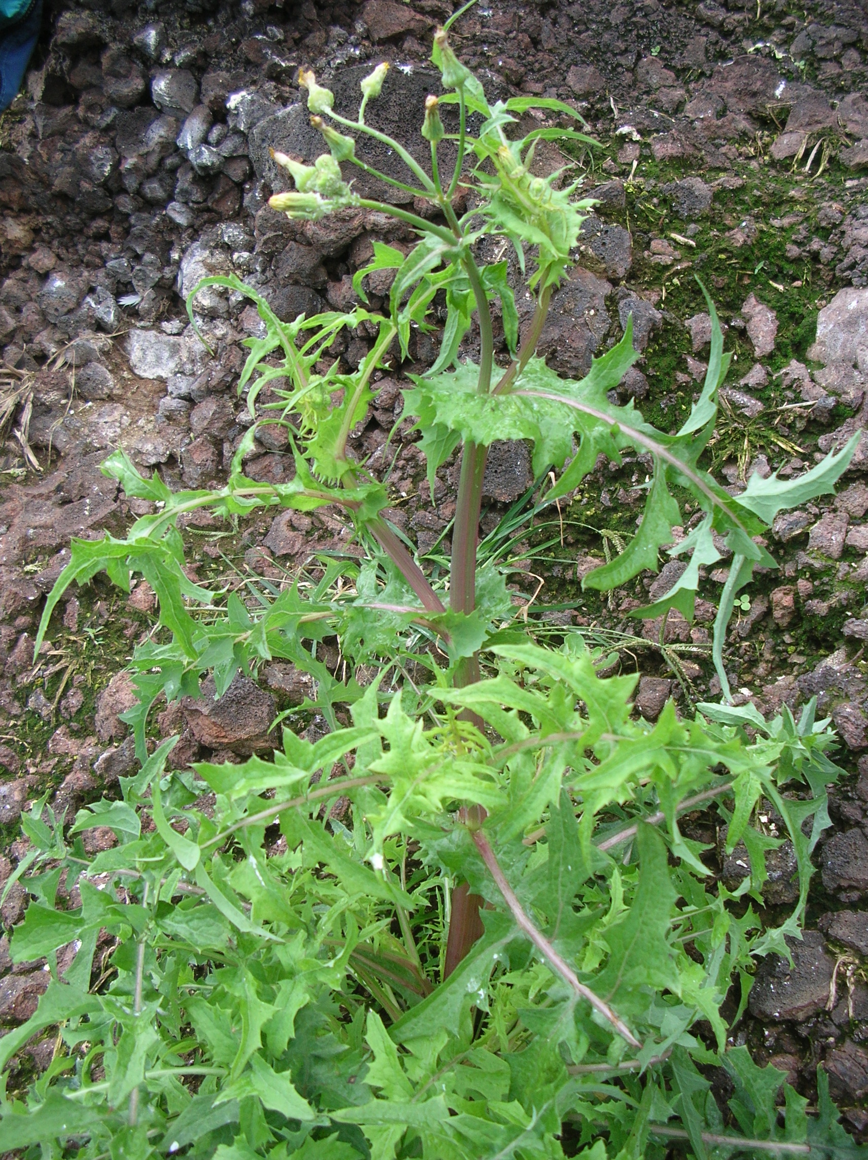 Sonchus oleraceus (habit). Location: Oahu, Moku Manu